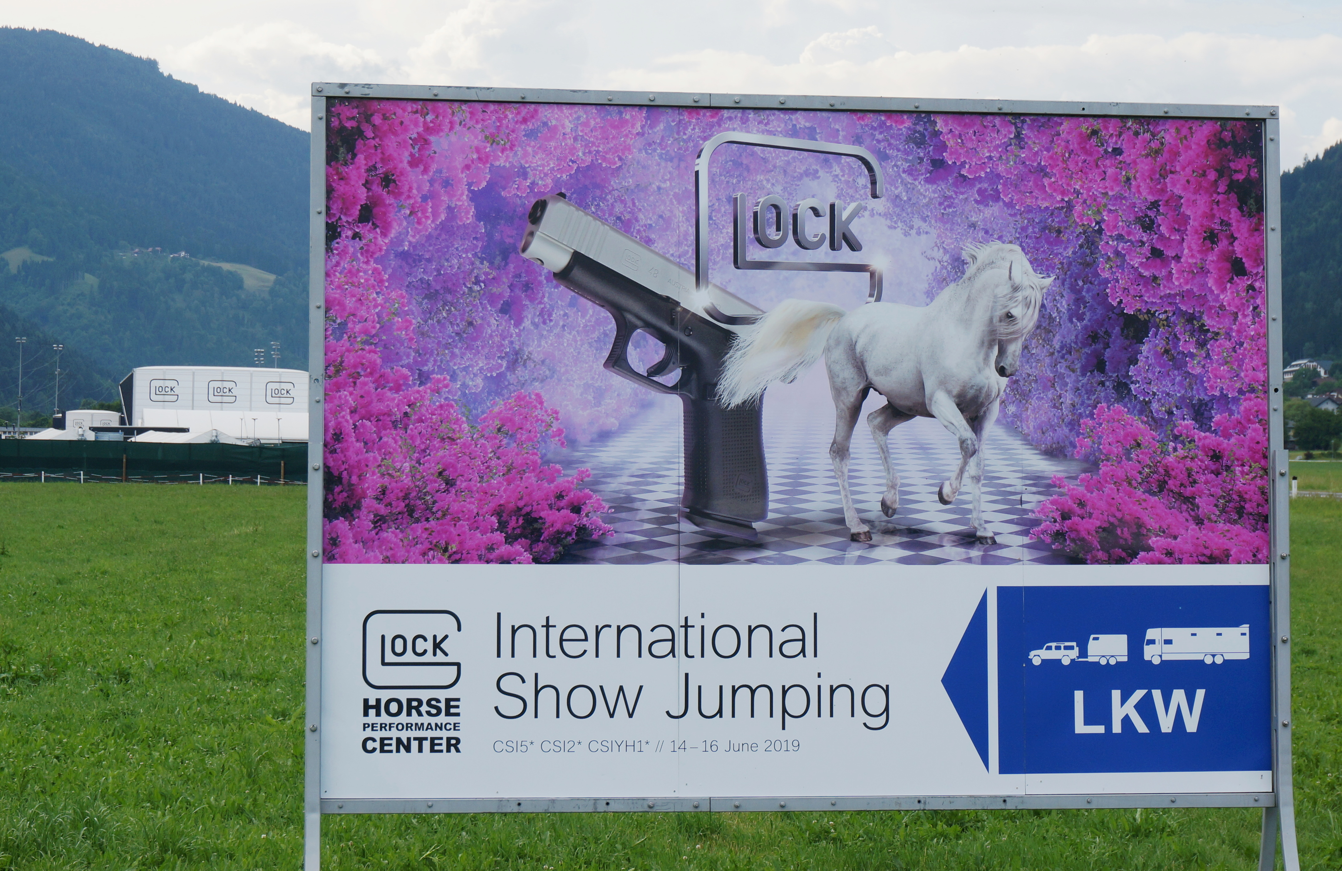 Gaston Glock Horse Performance Center, Show Jumping, municipality Treffen am Ossiachersee, Gegendtal, Carinthia, Austria, European Union